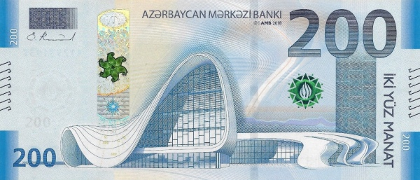 200 Azerbaijani manat in 2018 Obverse